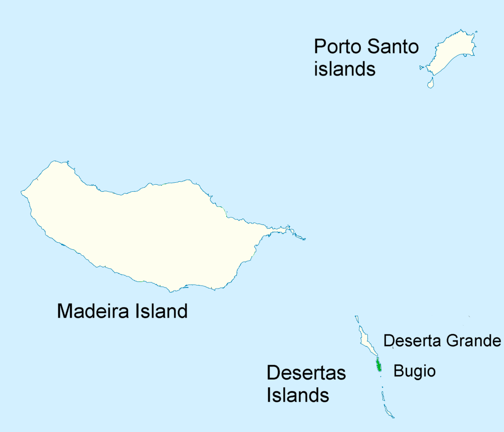 Map of the Portuguese Islands of Madeira Archipelago — in the Atlantic Macaronesia region. ALSO: A range map for Pterodroma deserta (Desertas Petrel) on Bugio Island (green), of the southern Ilhas Desertas (Desertas Islands) archipelago of Madeira. Bird species is possible split from Pterodroma feae (Fea's petrel).